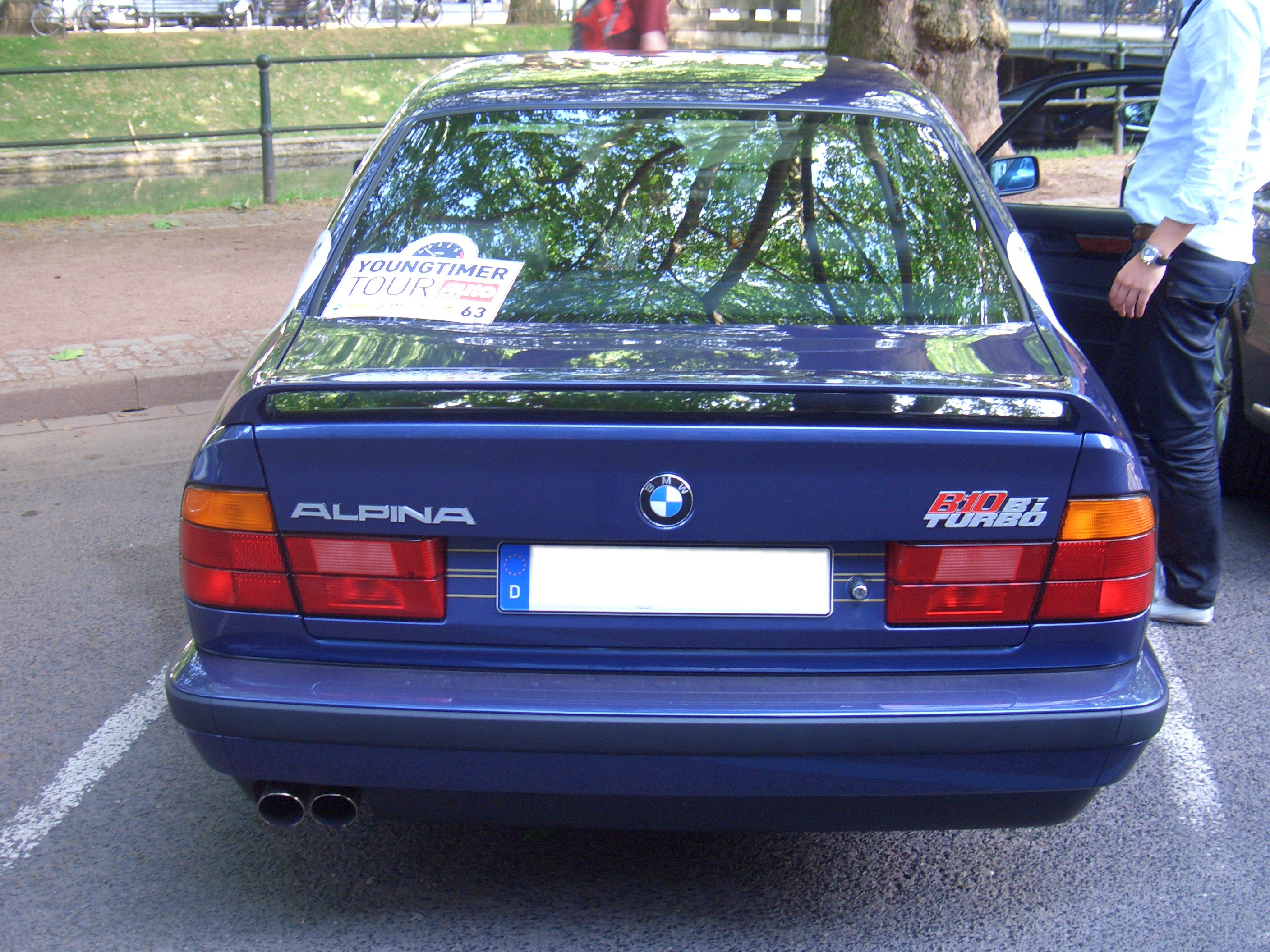 Alpina B10 Biturbo (based on BMW 5 series E34), 1989-1994, seen at AUTO ZEITUNG Youngtimer Tour 2011, finish at Königsallee, Düsseldorf